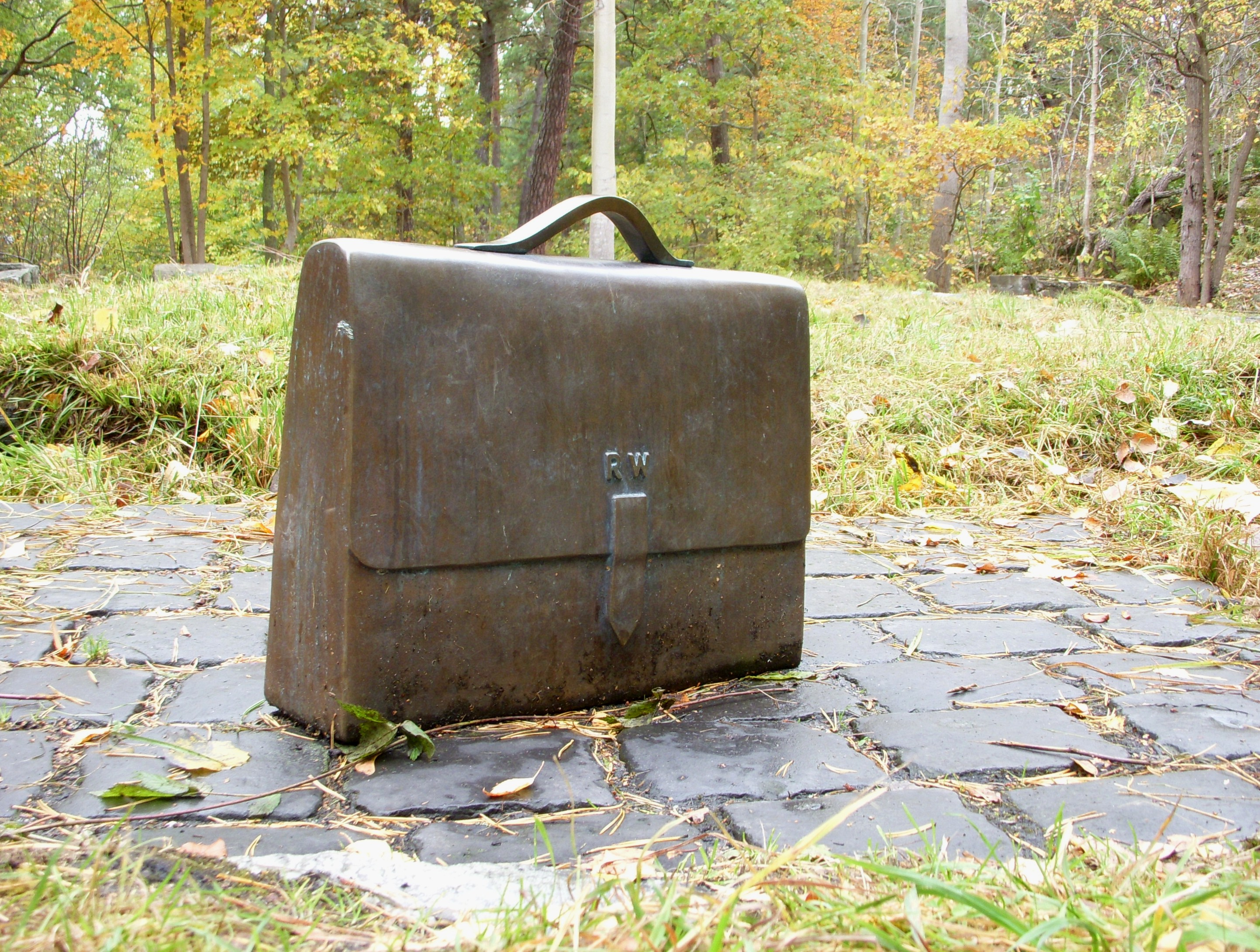 Raoul Wallenbergs briefcase in bronze, placed on the foundation to the summerhouse where he was born in 1912, in Kappsta, Lidingö